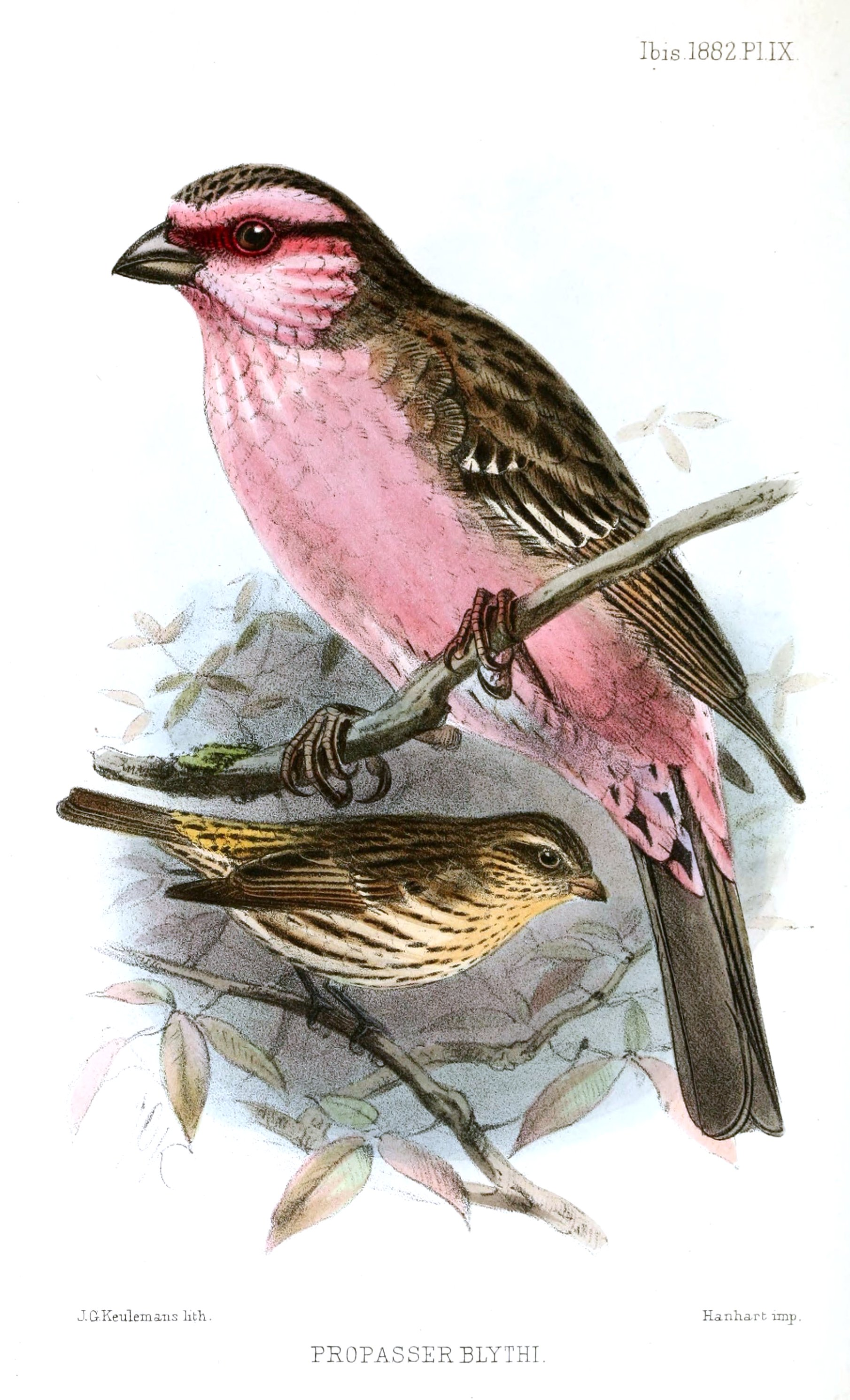 « Propasser blythi » = Carpodacus thura (Himalayan white-browed rosefinch) - male and female